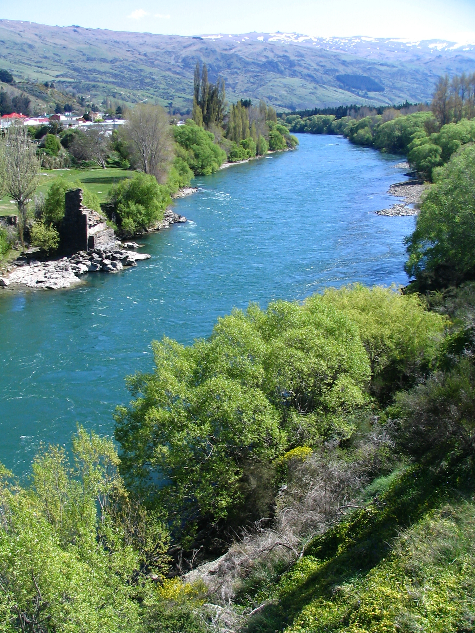 Clutha River at Roxburgh, New Zealand, from the Roxburgh Bridge